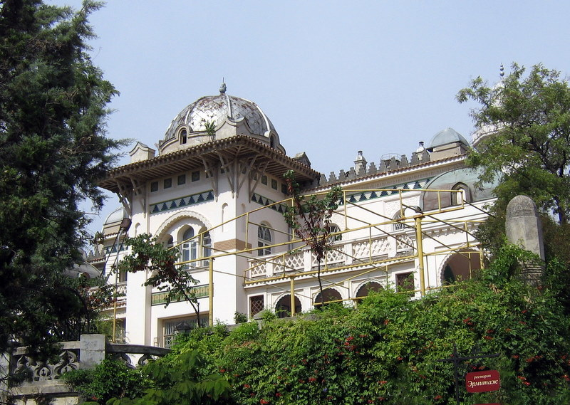 Dacha Stamboli in Theodosia, Crimea